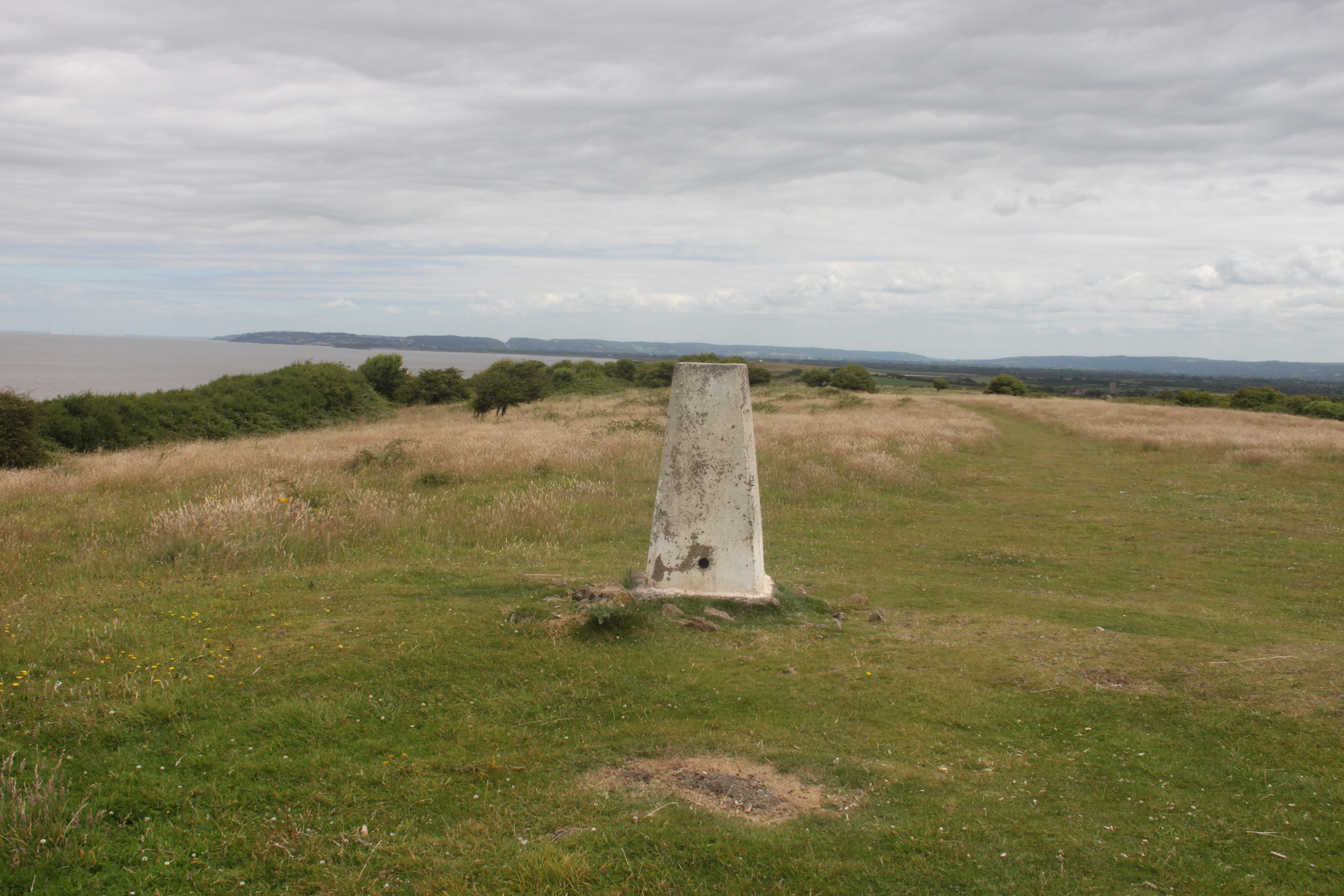 View of Sand Point and Middle Hope